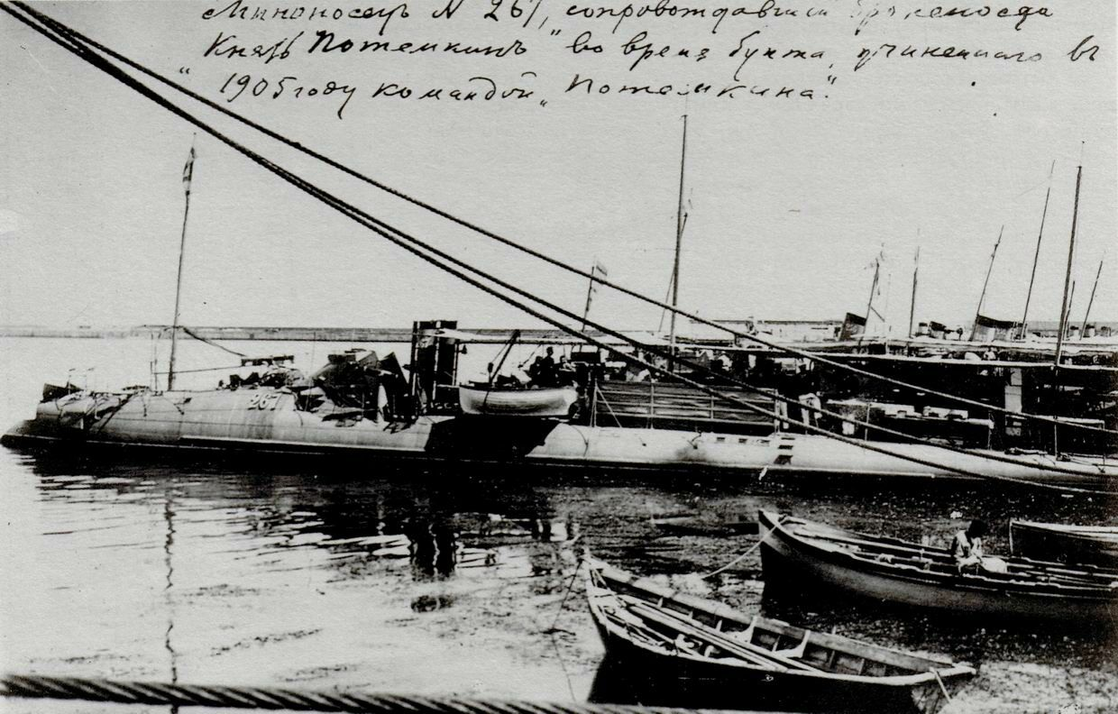 Imperial Russian torpedo boat No.267, former Izmail.